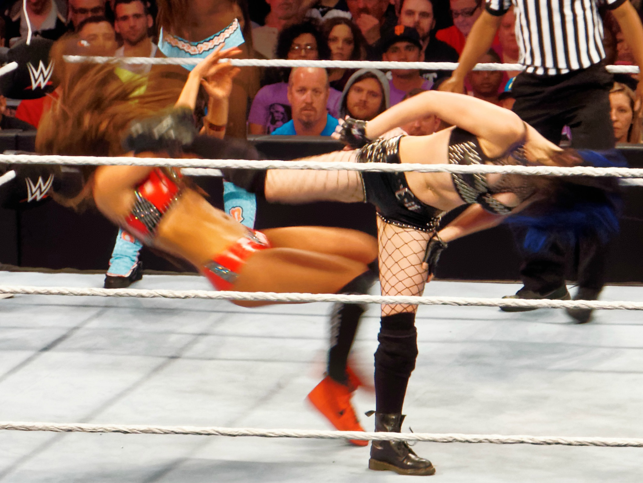 Paige applying the side kick on Nikki Bella in March 2015.